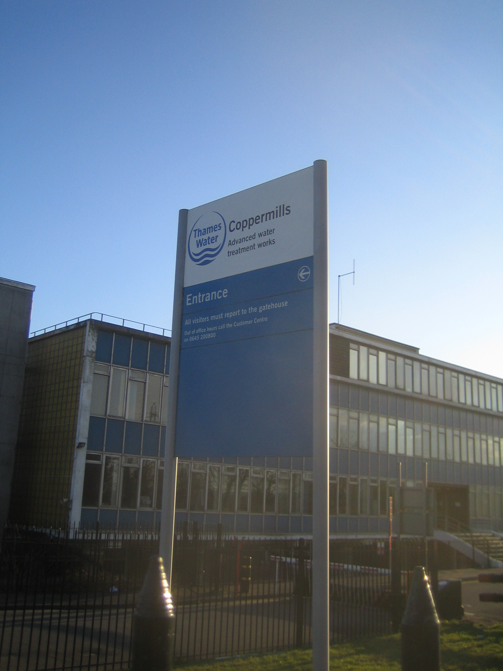 Photo of the administration block of the Coppermills Water Treatment Works at Walthamstow